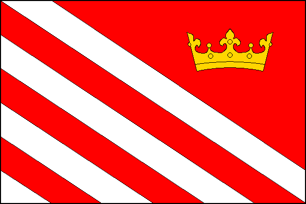 Municipal flag of Sezemice town, Pardubice District, Czech Republic.